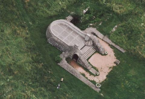 Dömös, monastery - Hungary, aerial photography This is a photo of a monument in Hungary, Identifier: 6144